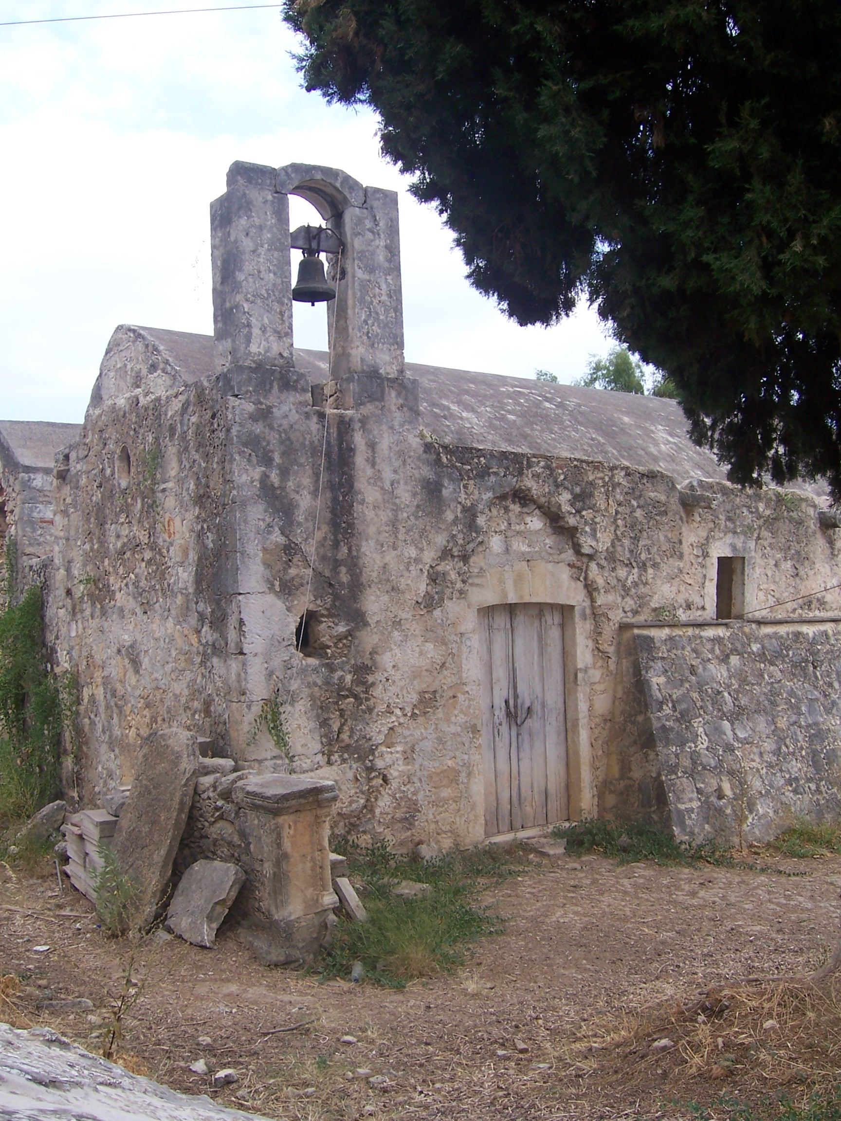 Byzantine church in Stylos. Crete, Greece